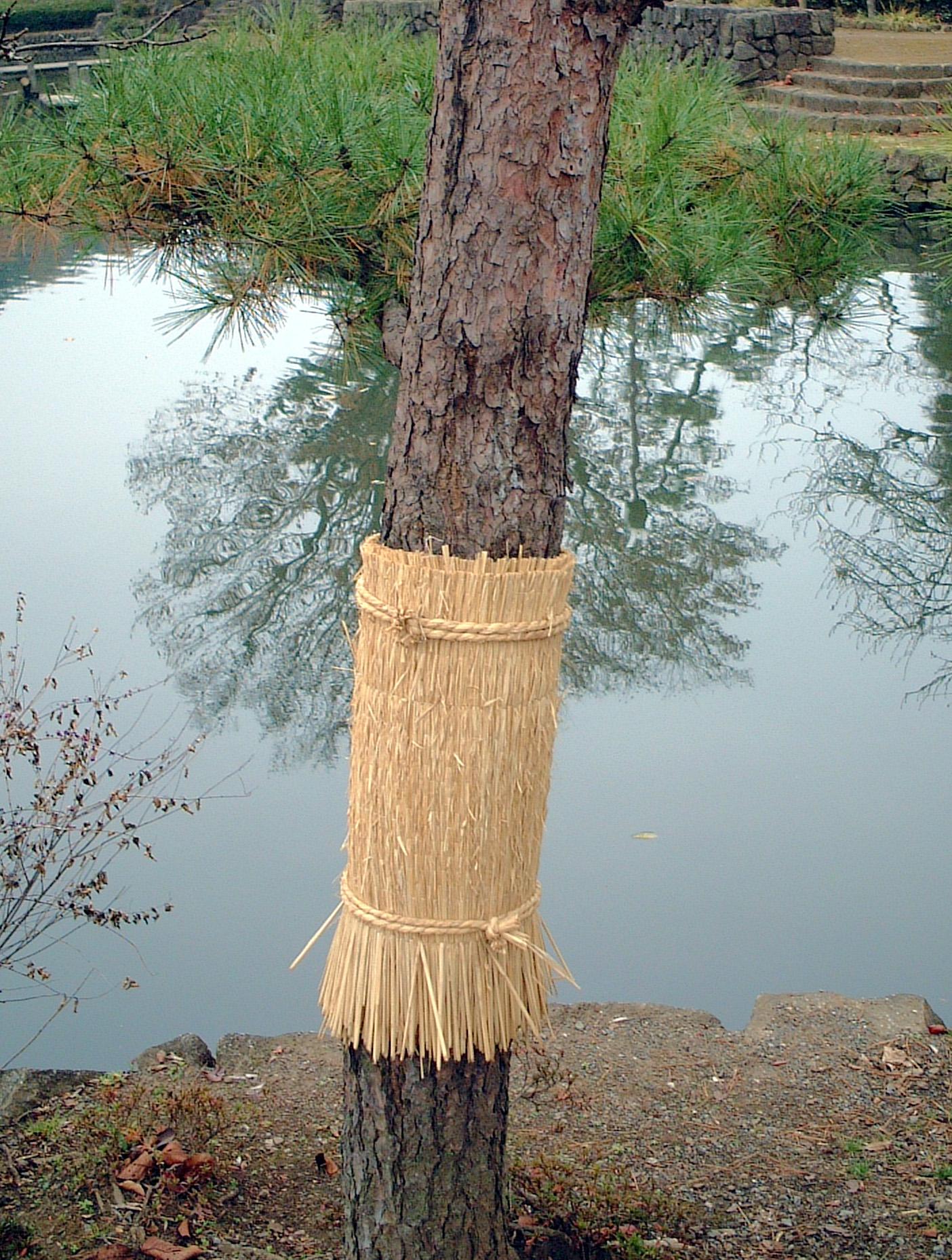 Matsu no komomaki. Photo taken in Tokyo Japan.